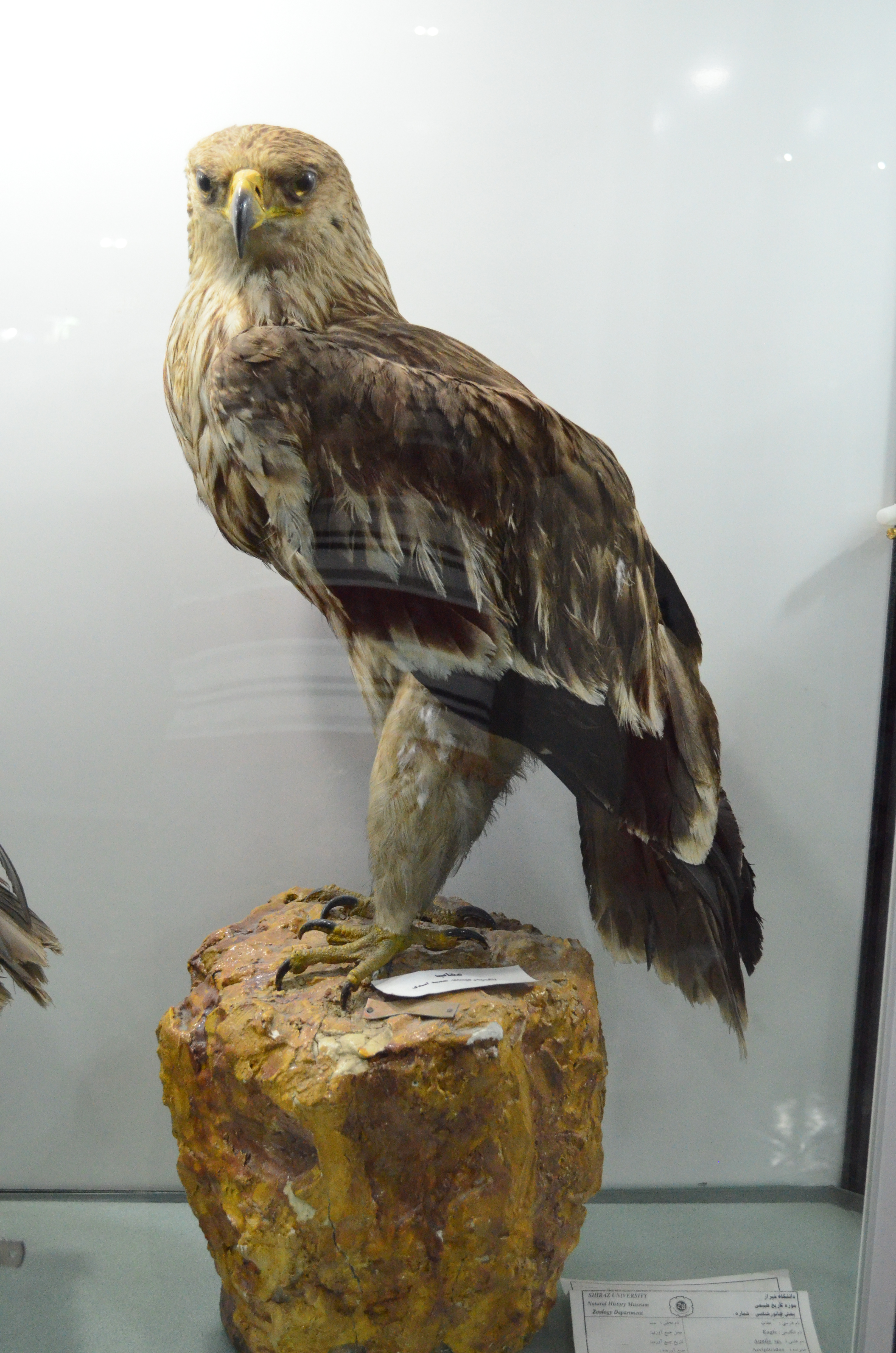 Natural History and Technology Museum of Shiraz University